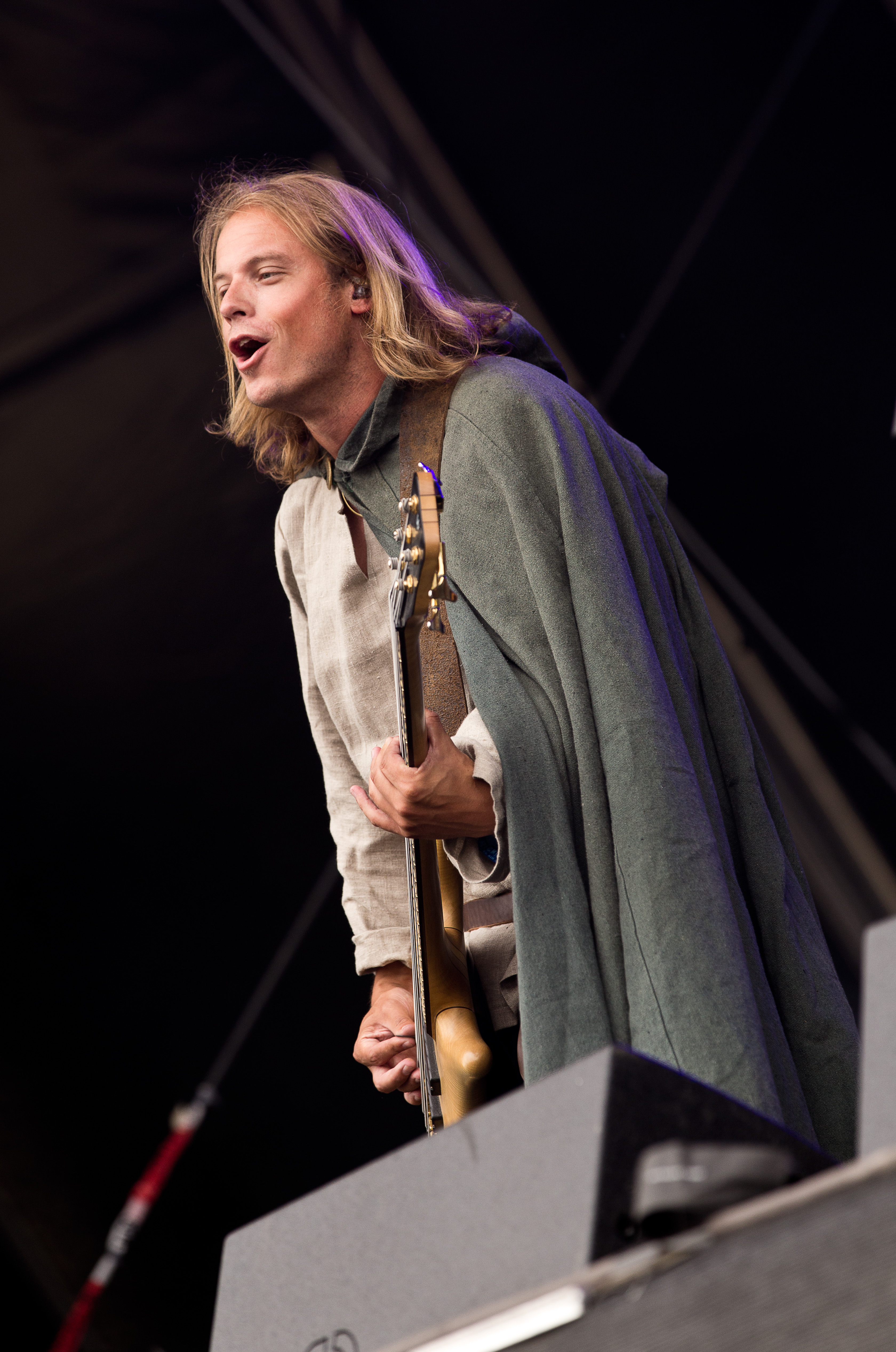 The Swedish power metal band Twilight Force at the Rockharz Open Air 2016 in Ballenstedt/Germany.